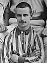 Jem Bayliss, West Bromwich Albion F.C. association football player